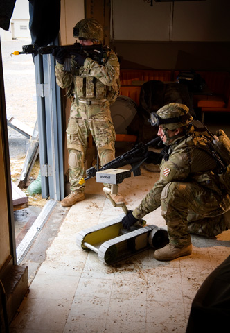 future force warriors training with sugv